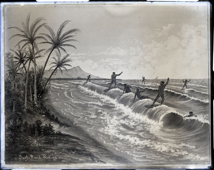 Title: Surf Board Riding Creator: Brother Bertram Subjects: Prints ; Waikiki ; People ; Plants ; Mountains ; Diamond Head